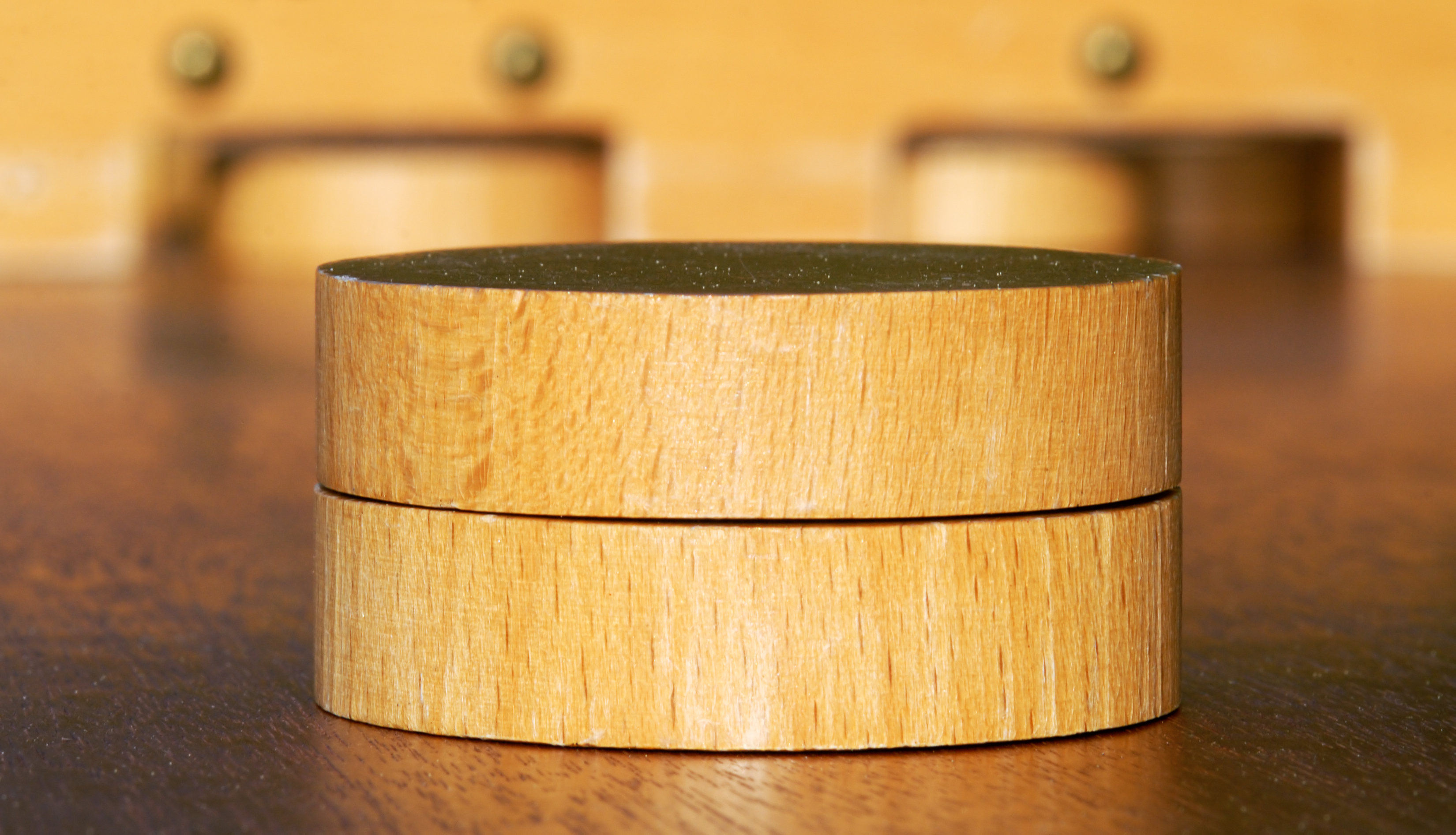 pucks of a table shuffleboard